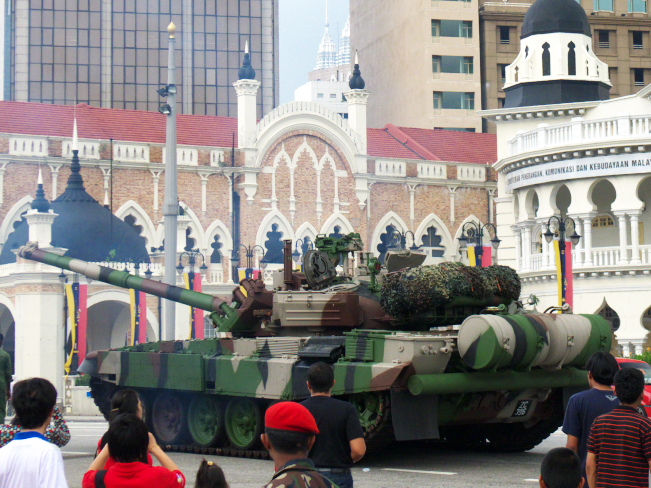 PT-91M tank of the Malaysian army. 06th March 2011, Malaysian army open day. Dataran merdeka, Kuala Lumpur, Malaysia.